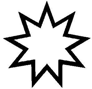 Nine-pointed star, the symbol of the Baha'i Faith, from Image:Bahaitemplatestar.png.